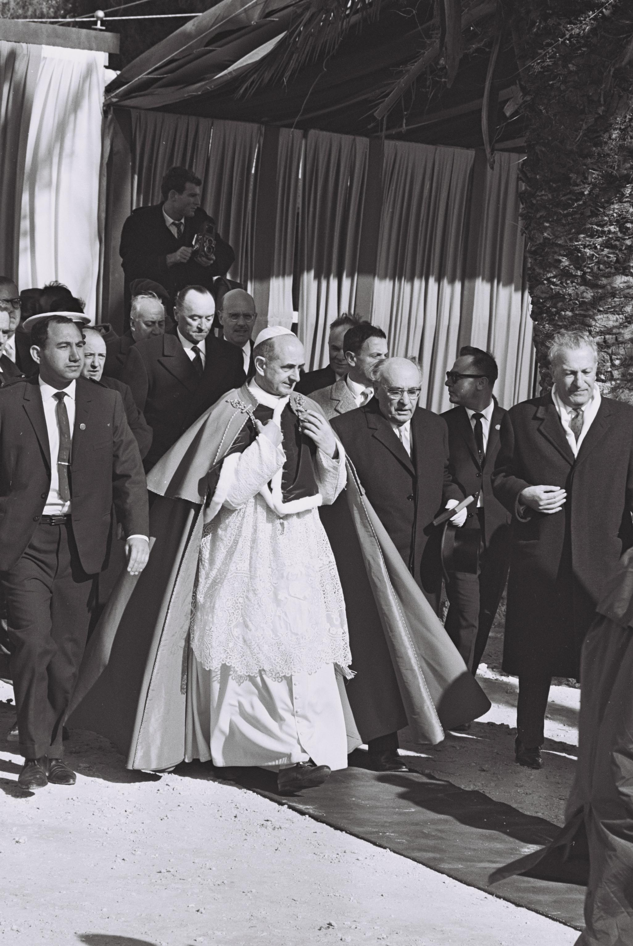 POPE PAULUS VI ACCOMPANIED BY PRES. ZALMAN SHAZAR (R) AND MEMBERS OF THE DIPLOMATIC CORPS WALKING ON THE RED CARPET TO HIS CAR AFTER THE OFFICIAL WELCOMING AT MEGIDDO.